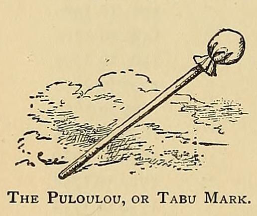 The Puloulou, or Tabu Mark